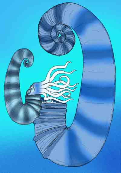 Reconstructions of two species of the heteromorph ammonite genus Shastoceras behemoth (the larger), and S. californicum (the smaller), of Aptian California (C) Stanton F. Fink